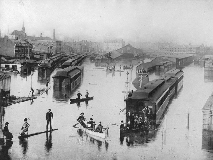 Photograph: Flood, Bonaventure Depot, Montreal, QC, 1886, George Charles Arless, Silver salts on paper mounted on card - Albumen process - 19 x 23 cm